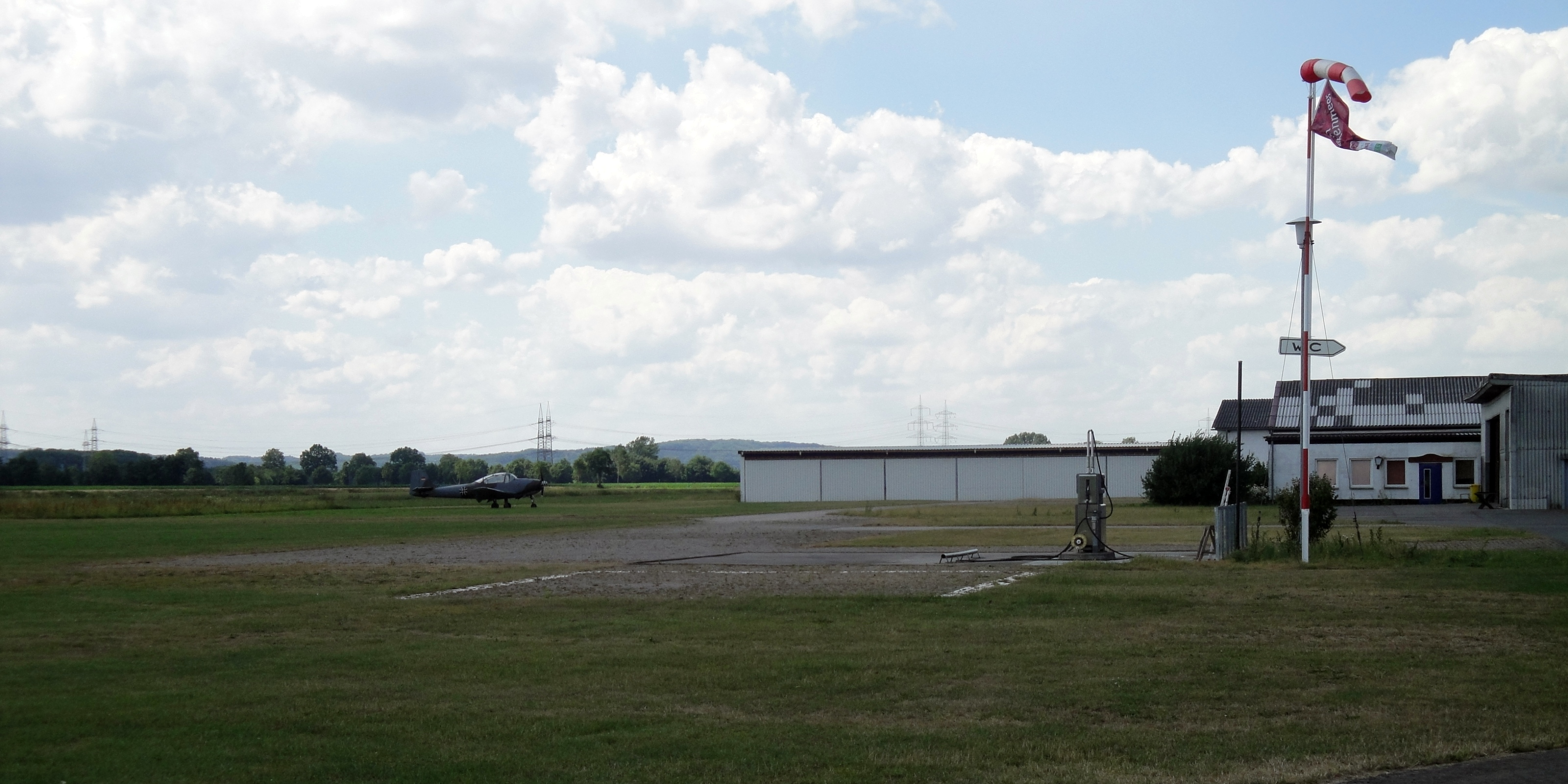 Bohmte-Bad Essen Airfield (EDXD)